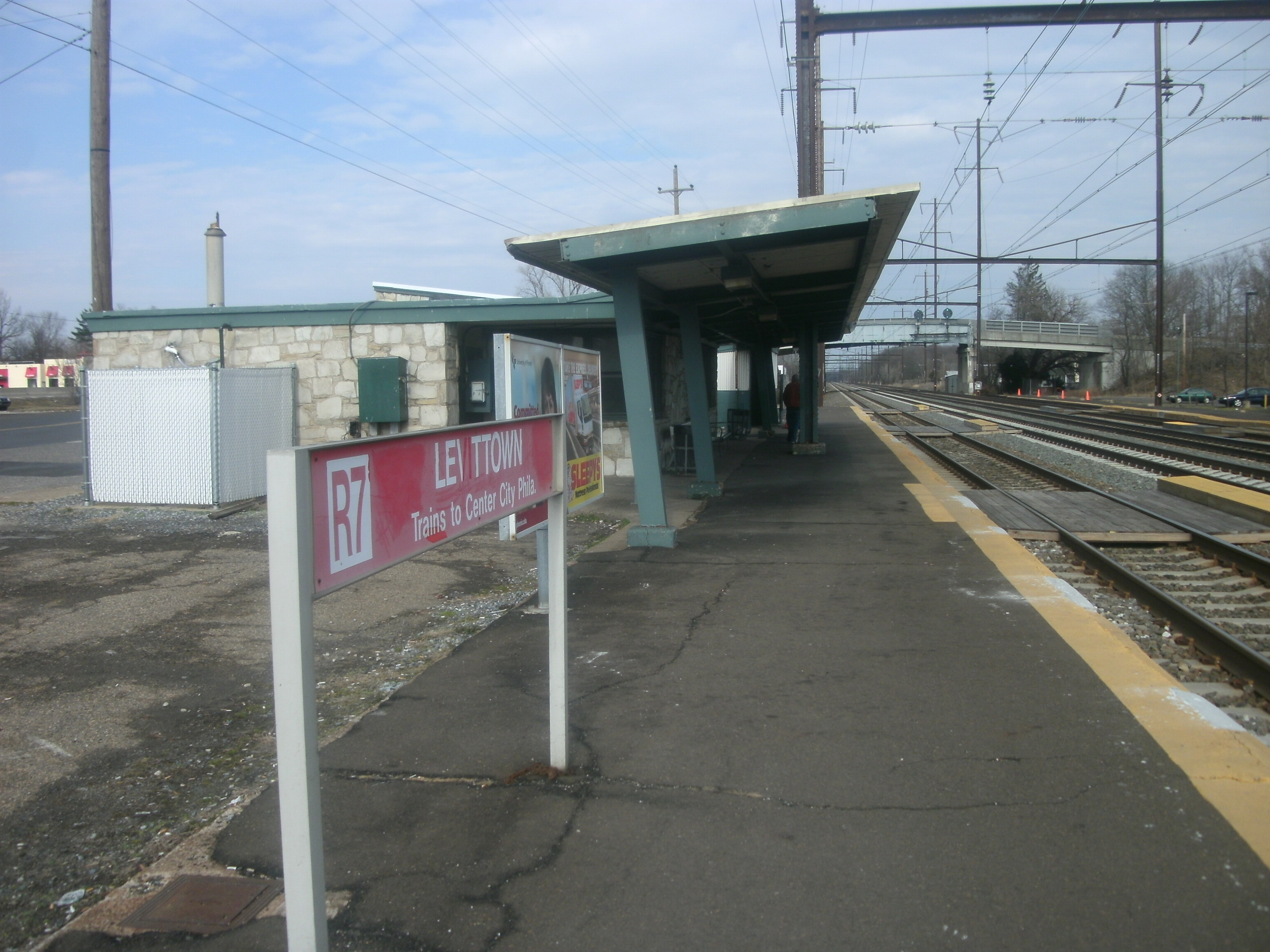 Levittown-Tullytown Station on the former SEPTA R7-Trenton, now just the Trenton Line in Levittown, Pennsylvania.